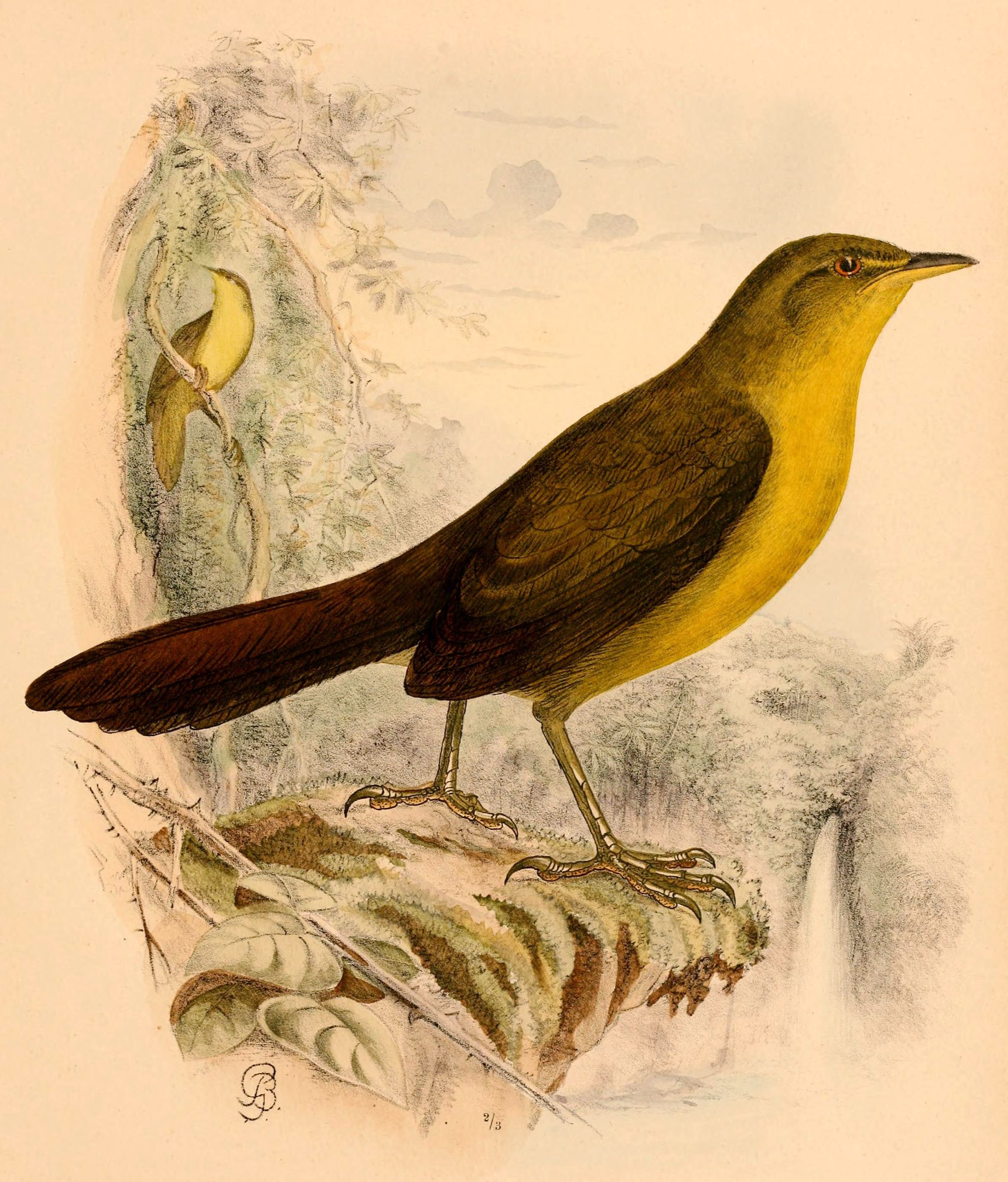 « Malia grata recondita » = Malia grata recondita (Subspecies of Malia)